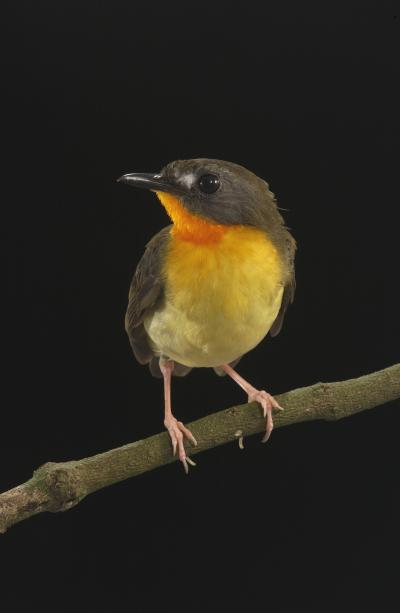 Stiphrornis erythrothorax pyrrholaemus a new bird subspecies; female. Southwest Gabon, west Africa.